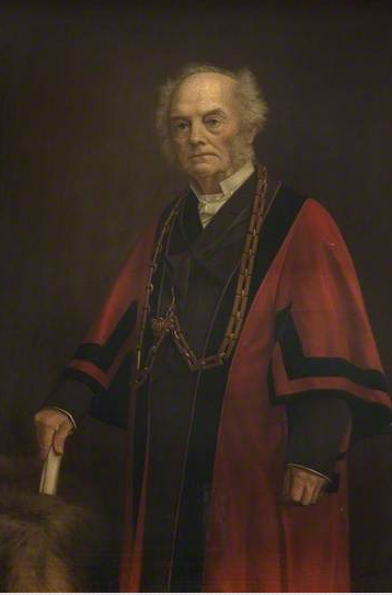 Portrait of Alderman George Hurst (1800-1898), Mayor of Bedford (1855, 1873 - 1874 and 1878). Currently in the possession of Bedford Council.